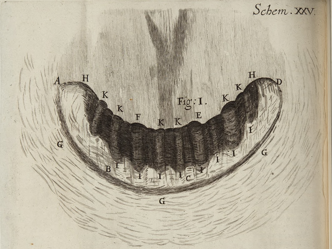 Schem. XXV - 1. Of the Teeth of a Snail.